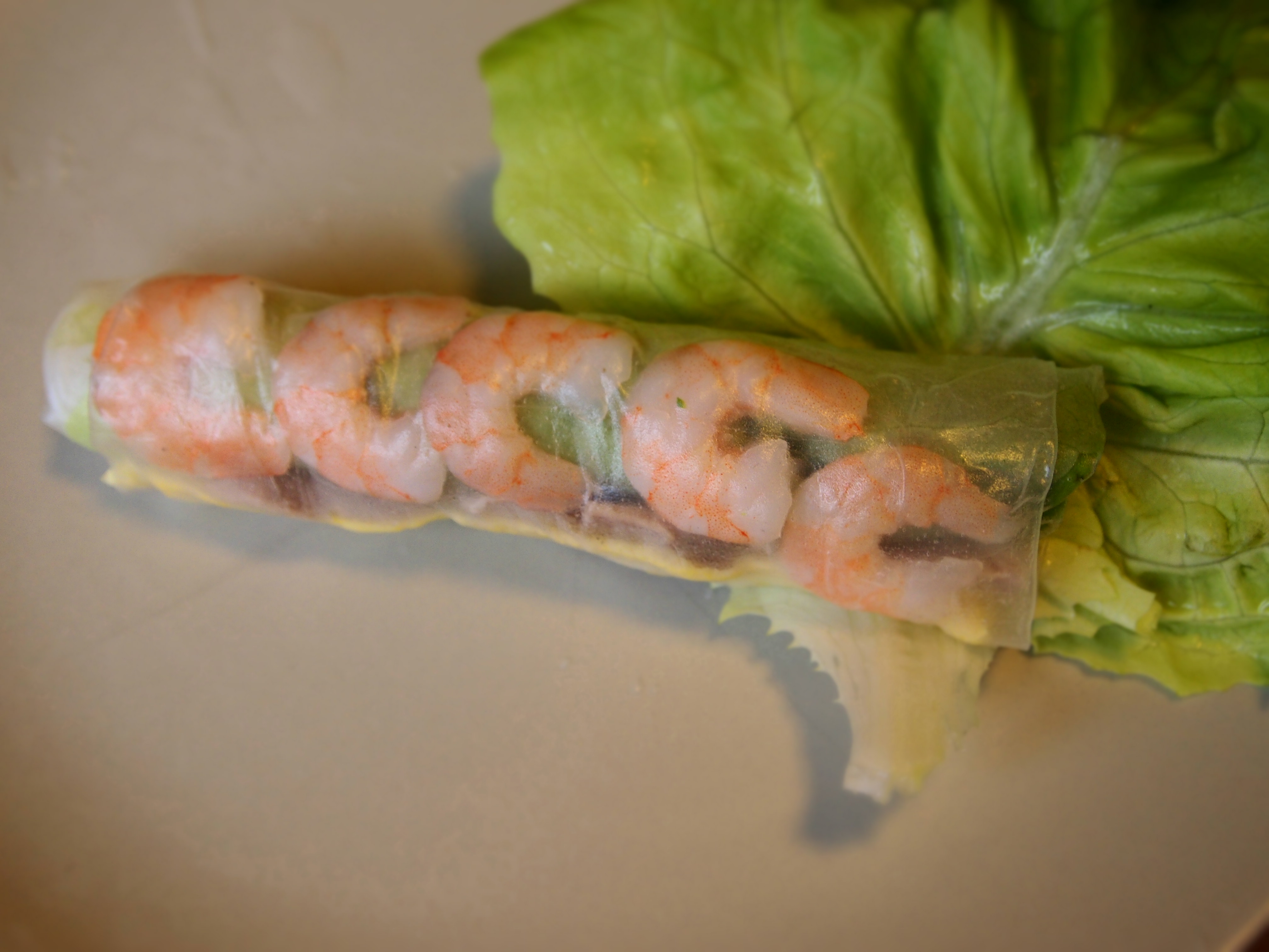 Summer roll, or fresh spring roll, or Gỏi cuốn (in Vietnamese)